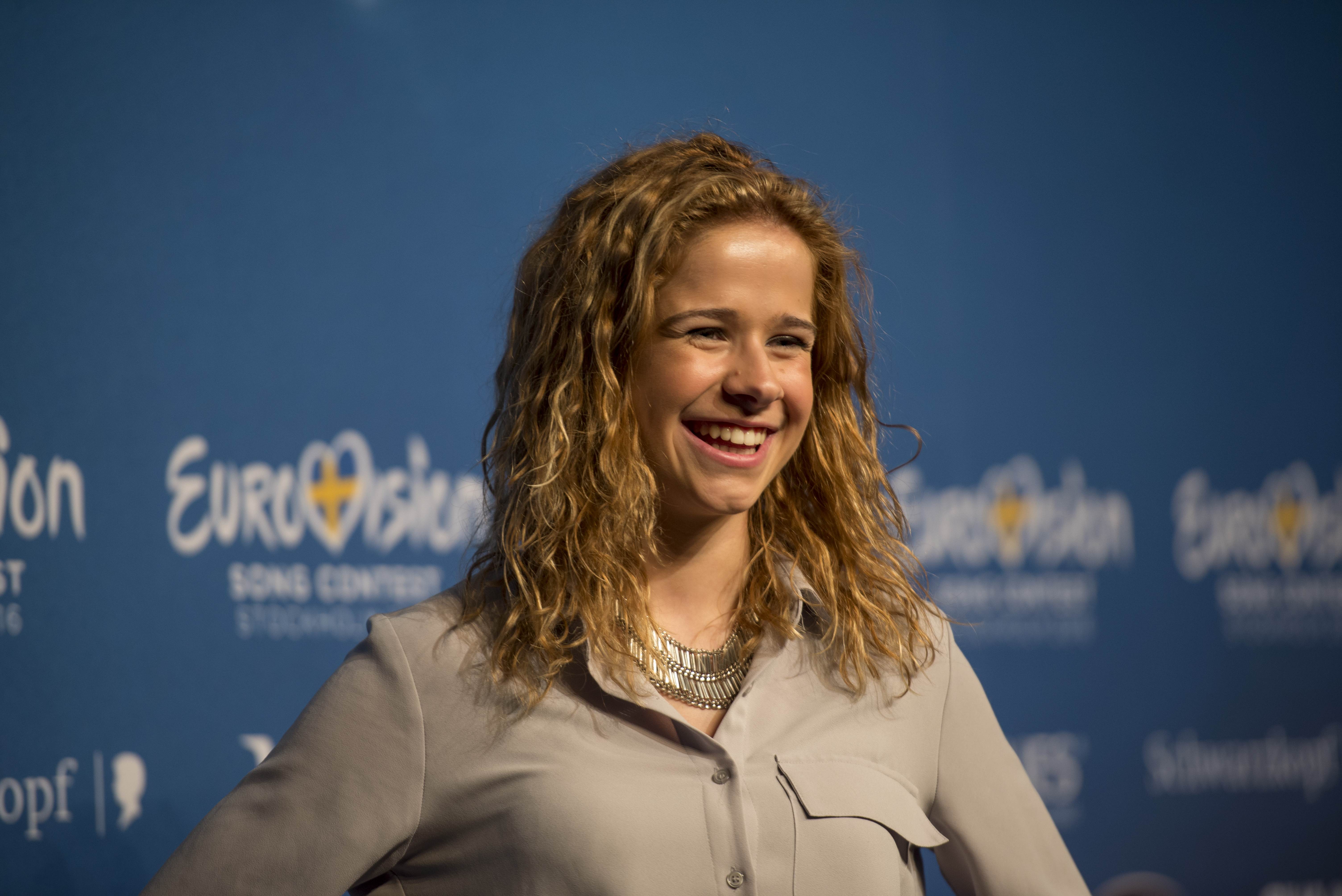 Laura Tesoro at a Meet & Greet during the Eurovision Song Contest 2016 in Stockholm. (Help translate this text)